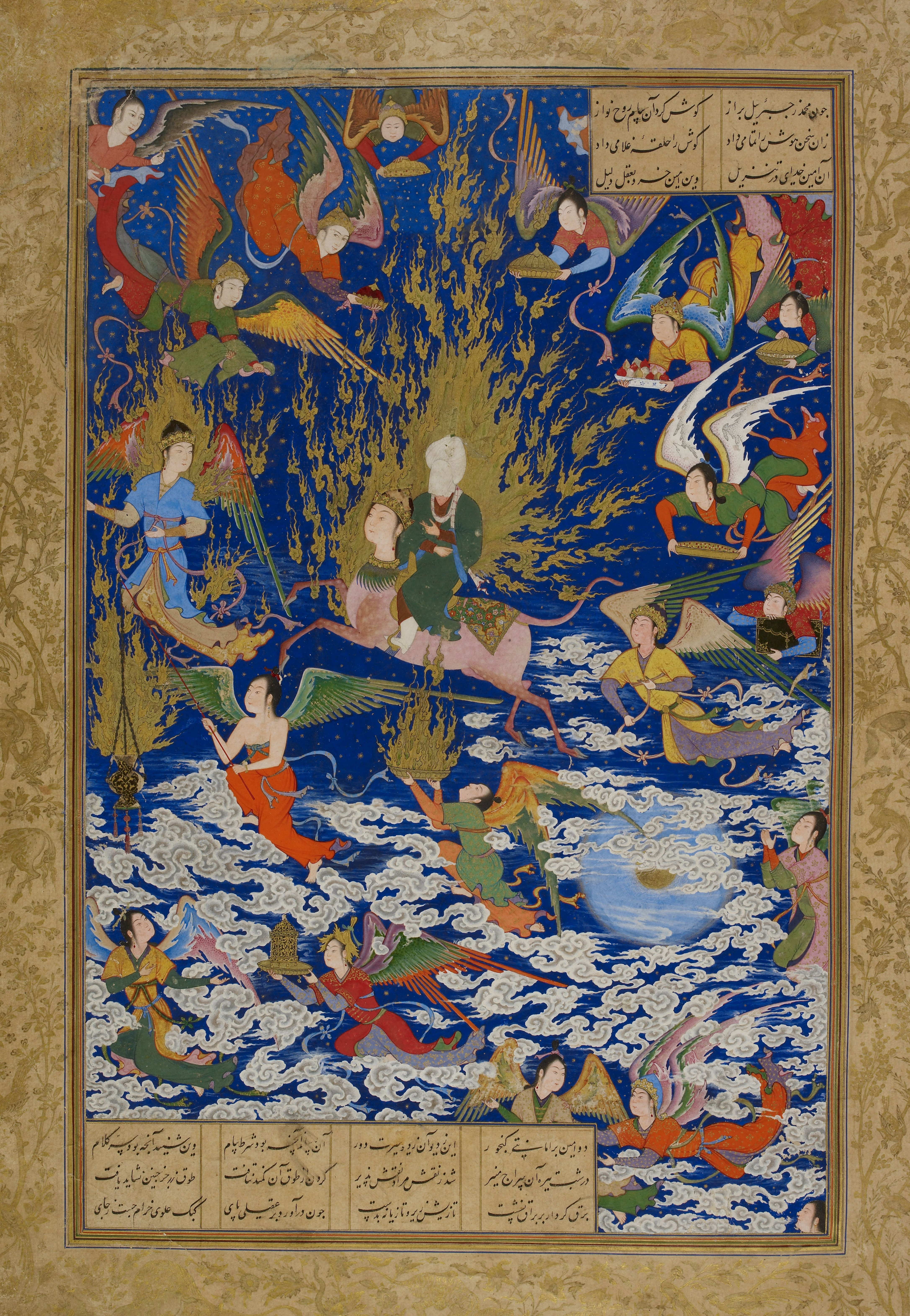 This work is coming form a Khamseh of Nizami. It is ascribed to Sultan Muhammad.